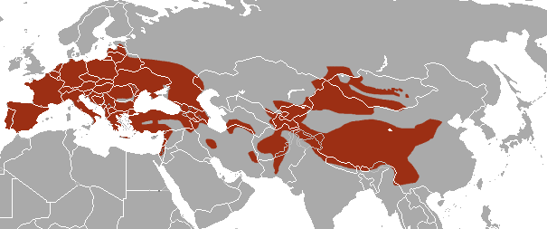 Beech Marten (Martes foina) range